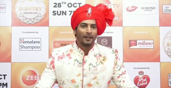 Sehban Azim at awards function.